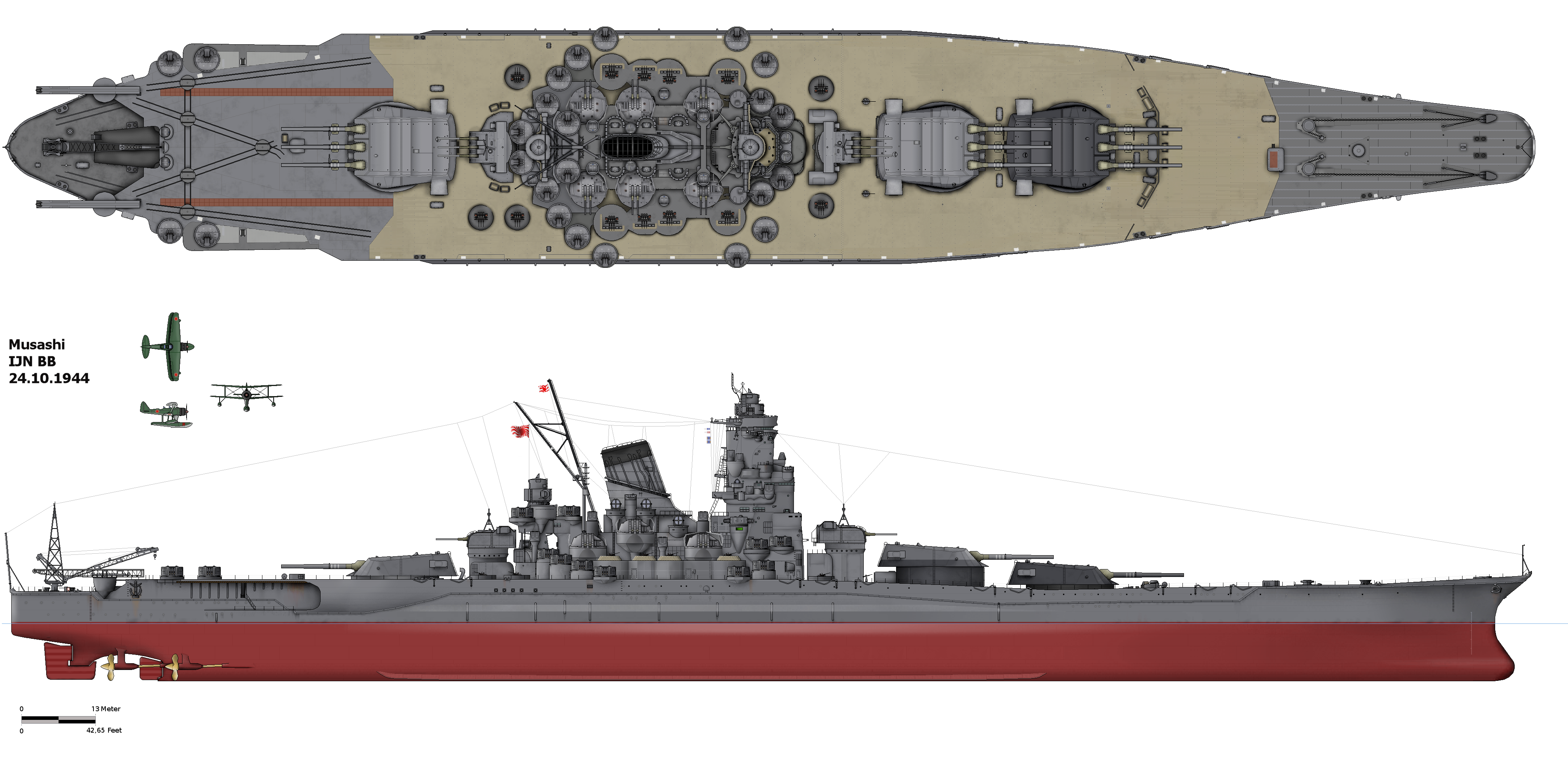 Drawing of IJN Superbattleship Musashi in her 10/1944 configuration.